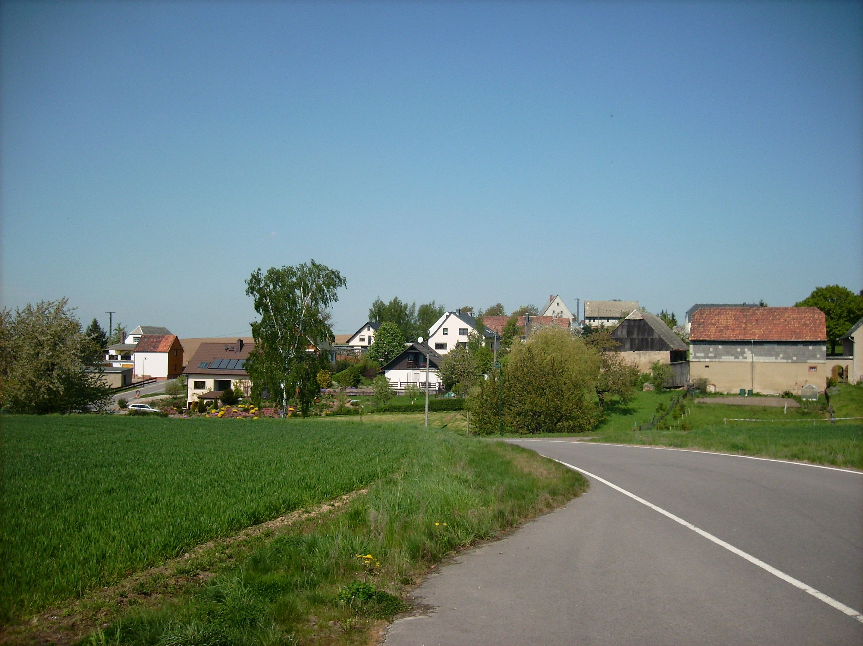 The village of Köttern (Seelitz, Mittelsachsen district, Saxony)